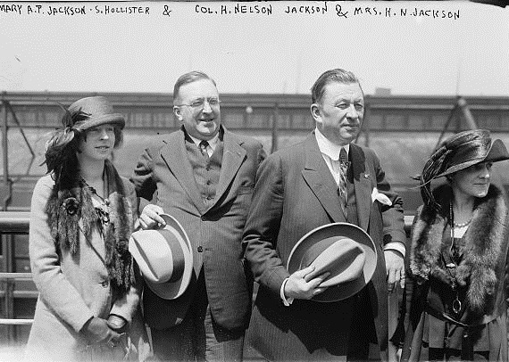 Hollister and H. Nelson Jackson with Nelson Jackson's wife Bertha (right) and Mary Ann Parkyn Jackson (1903-1935), the daughter of Joseph Addison Jackson.